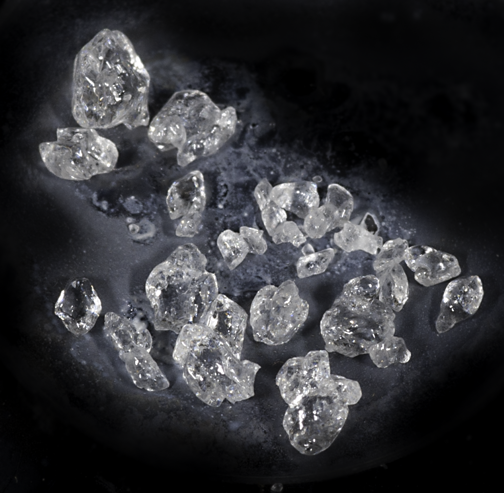 Crystals of xenon difluoride on a silicon sample holder